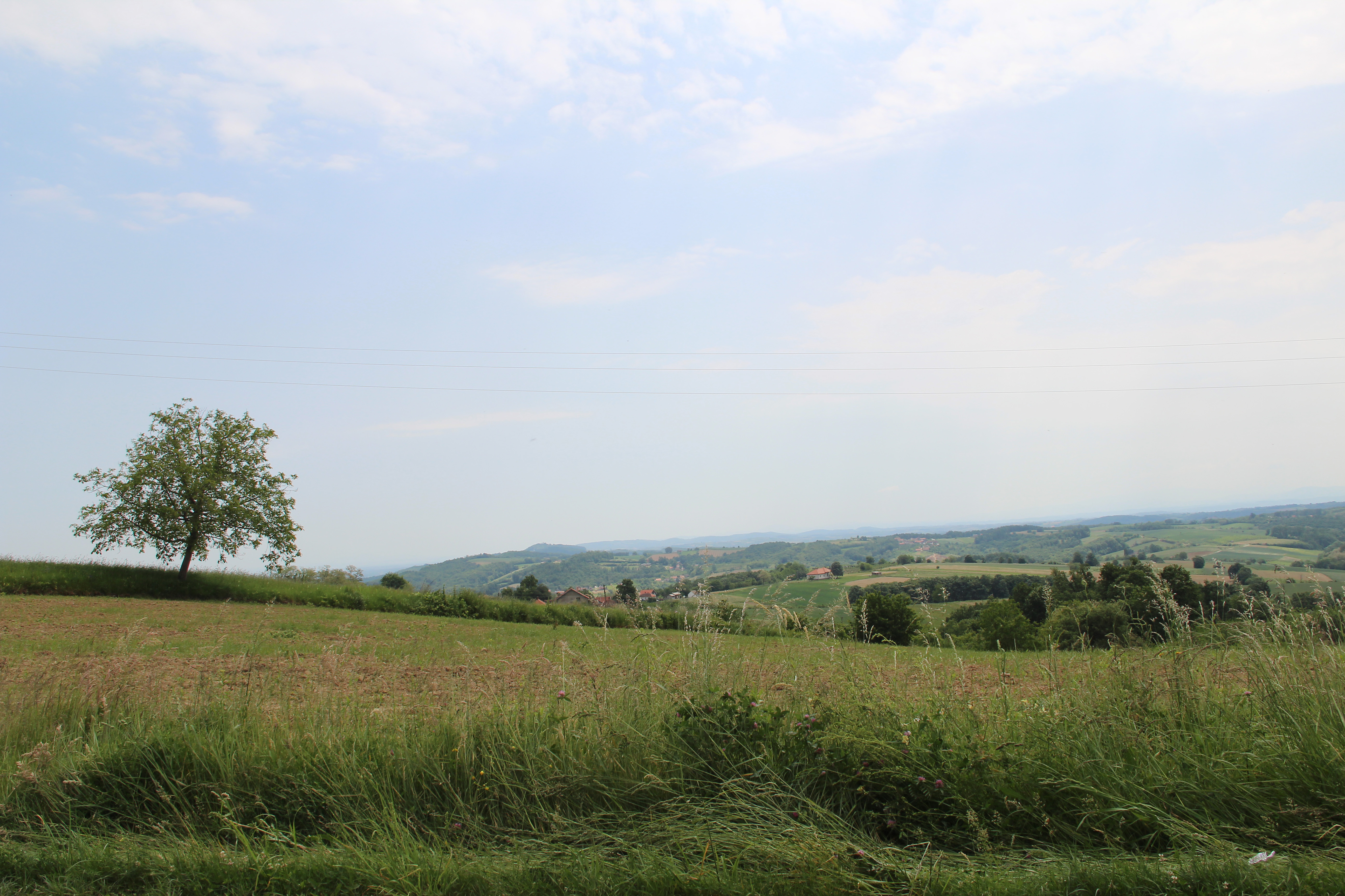 Joševa village - Municipality of Valjevo - Western Serbia - Panorama 1